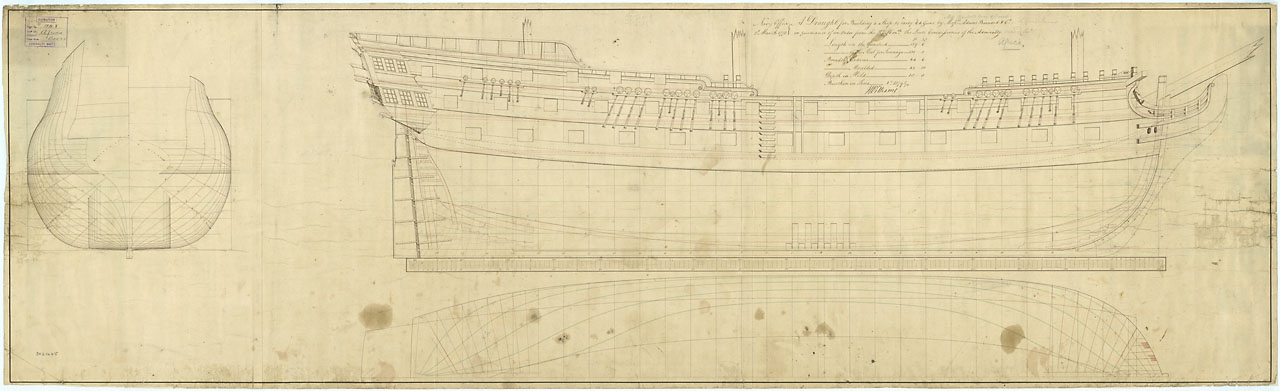 Body plan, sheer lines, and longitudinal half-breadth for building Africa (1781), a 64-gun Third Rate, two-decker at Deptford by Messrs Adams, Barnard & Co. The plan may also relate to Inflexible (1780) and Sceptre (1781). Signed by John Williams [Surveyor of the Navy, 1765-1784]